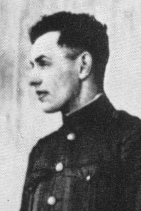 Crew members of the NC-4, first trans-Atlantic flight, 1919. From left to right: LT Elmer F. Stone, U.S. Coast Guard (Pilot); Chief Petty Officer Eugene C. Rhoads, USN; LTJG Walter Hinton, USN (CoPilot); ENS Herbert C. Rodd, USN (Radio Operator); LT James L. Breese, USN (Engineer), LCDR Albert Cushing Read, USN (Aircraft Commander/Navigator). An the very right, Capt. R.H. Jackson was not a crew member of the historic flight.